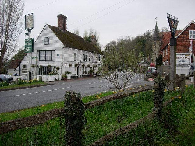 Newenden: the White Hart Pub. It is a 470 year old pub and restaurant